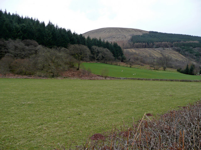 North side of Glyn Collwn View from the road of this heavily wooded valley side. The dome-like hill is Allt Lwyd, one of the easternmost outposts of the Brecon Beacons massif.